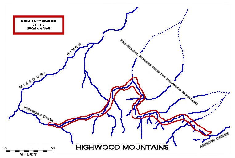 Map of a portion of the Shonkin Sag near Highwood, Montana, showing the path the Missouri River took after being diverted by glaciers during the Bull Lake glaciation about 200,000 to 130,000 years ago. Based on information in: F.H.H. Calhoun, The Montana Lobe of the Keewatin Ice Sheet, U.S. Government Printing Office, 1906, p. 43.